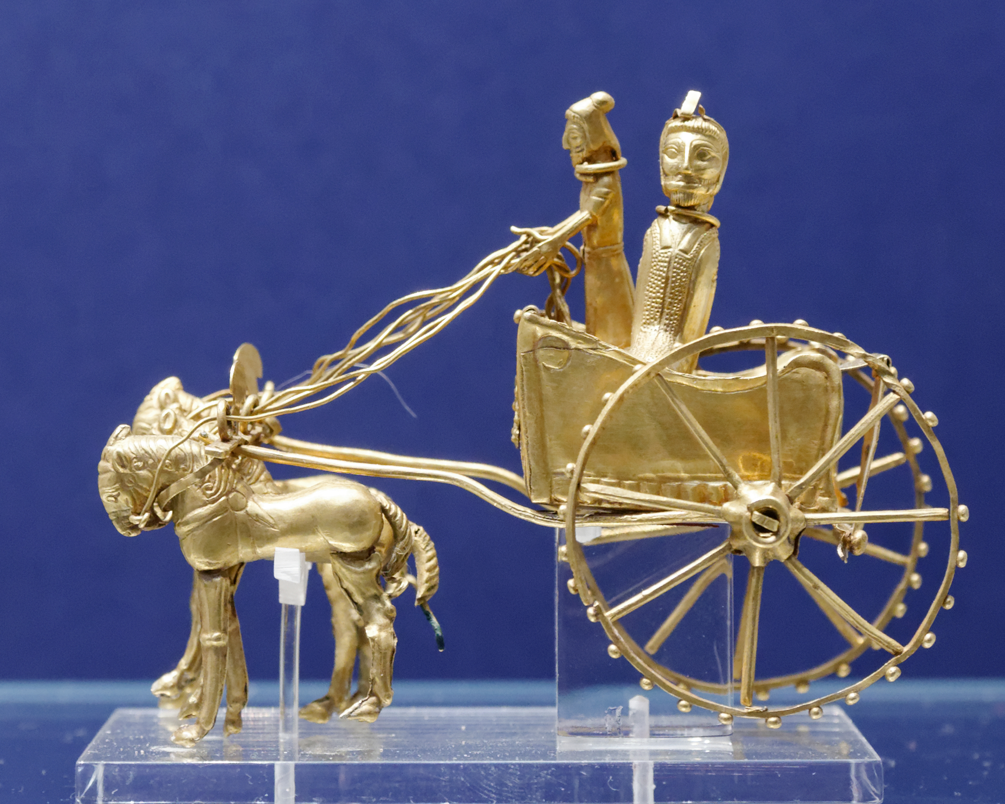 Model chariot pulled by four horses or ponies, with two figures wearing Median dress.